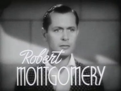 Robert Montgomery in Three Loves Has Nancy by Richard Thorpe (1938)